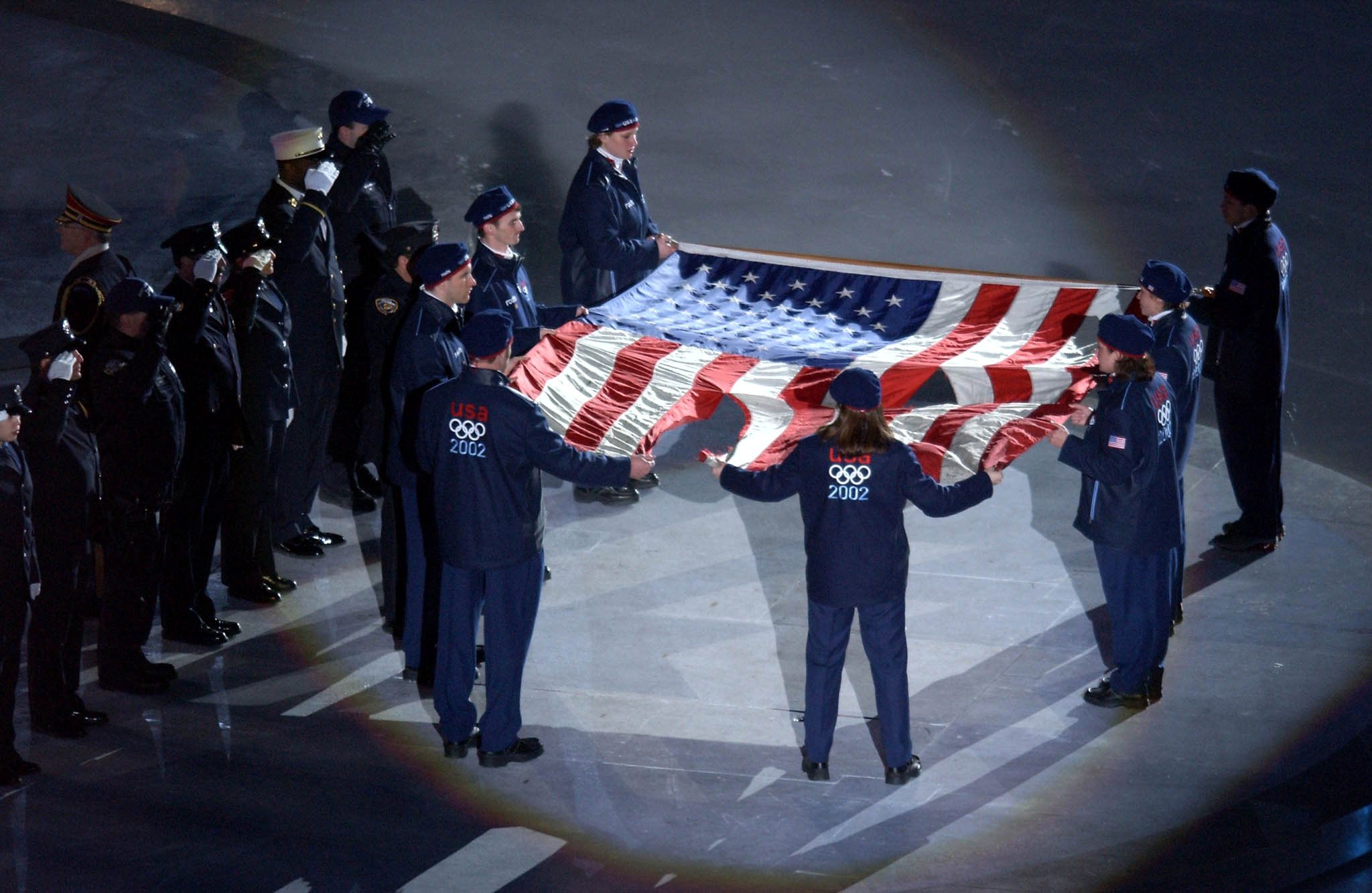 020208-N-3995K-002 Salt Lake City, UT (Feb. 8, 2002) -- Members of the United States Olympic team, including Women's Bi-athlete Sgt. Kristiana Sabasteanski (2nd from right), hold the American flag that flew over the World Trade Center on September 11, 2001. The flag was carried into Rice-Eccles Olympic Stadium during the playing of the national anthem at the Opening Ceremonies of the Salt Lake 2002 Olympic Winter Games. U.S. Navy photo by Journalist 1st Class Preston Keres. (RELEASED)